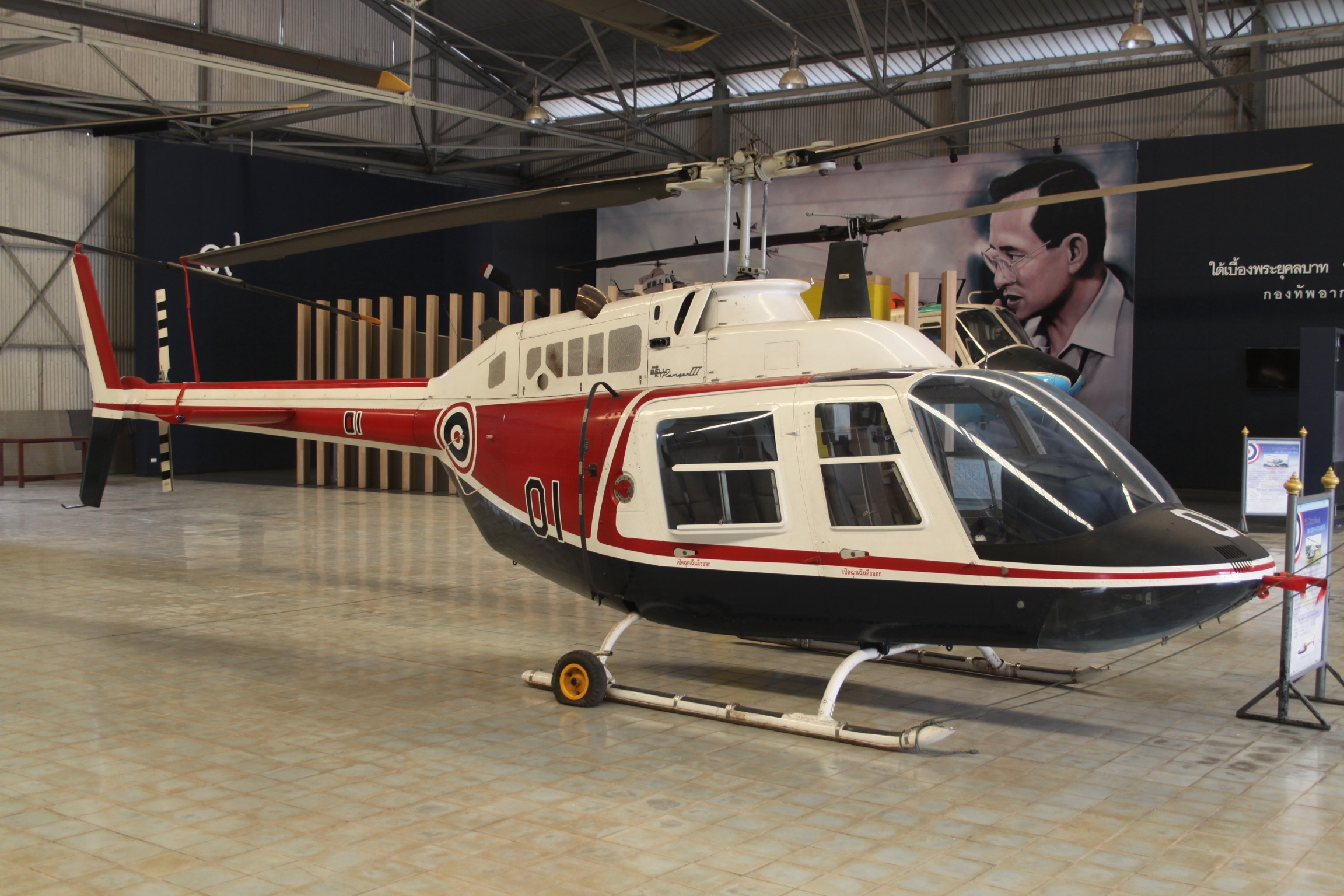 At Don Mueang International Airport